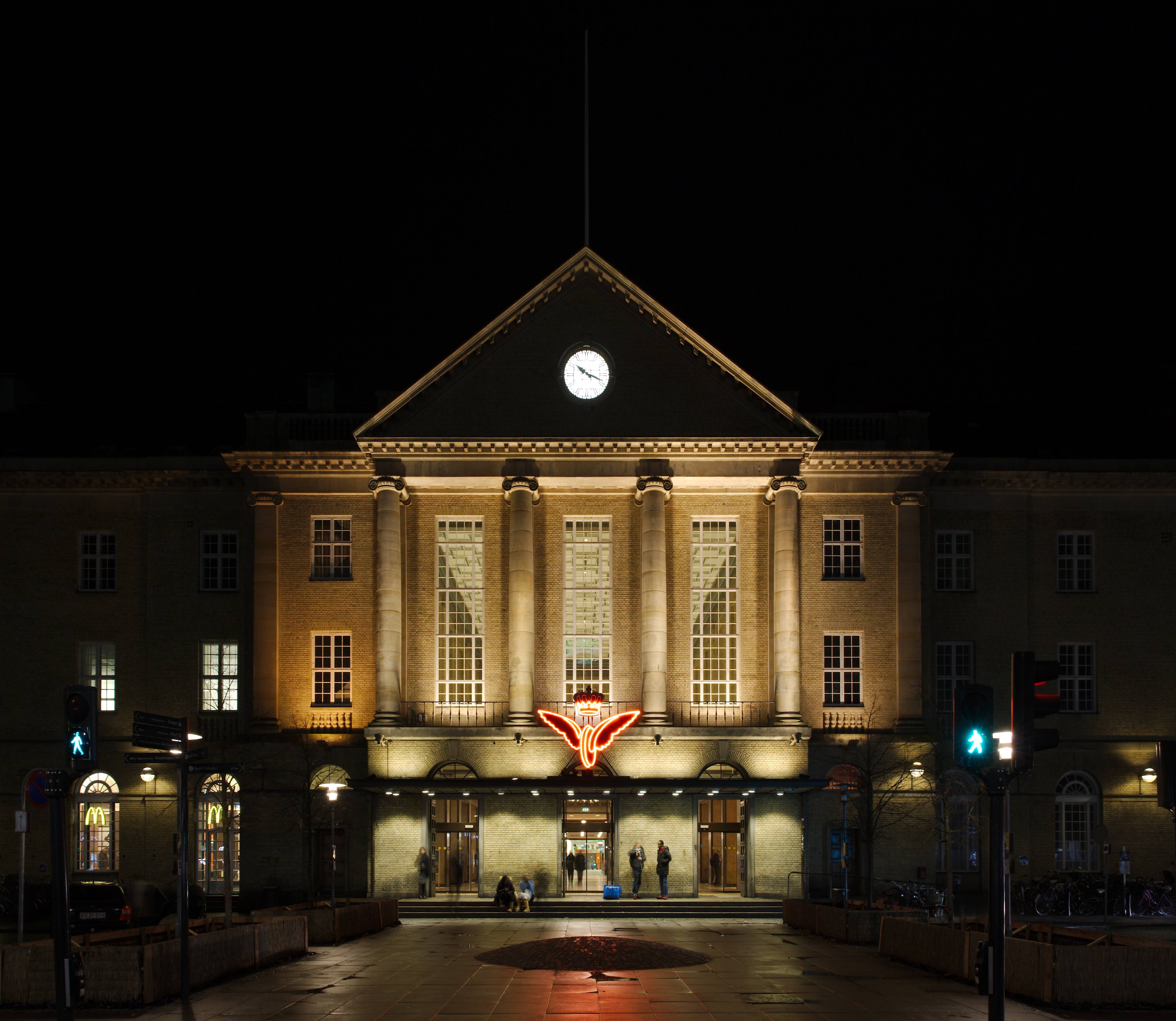 Aarhus Central Station evening